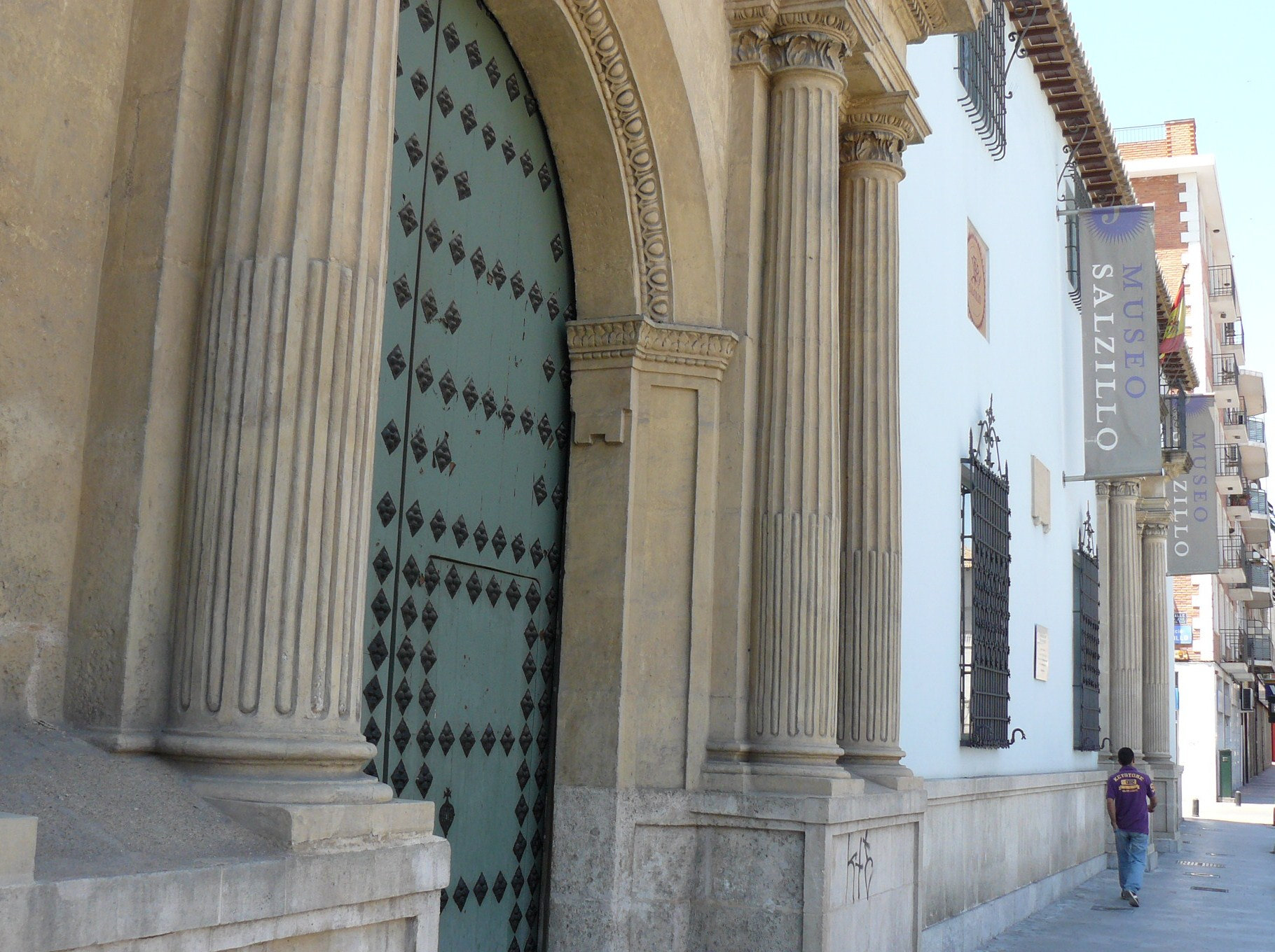 Salzillo Museum in Murcia. Spain.